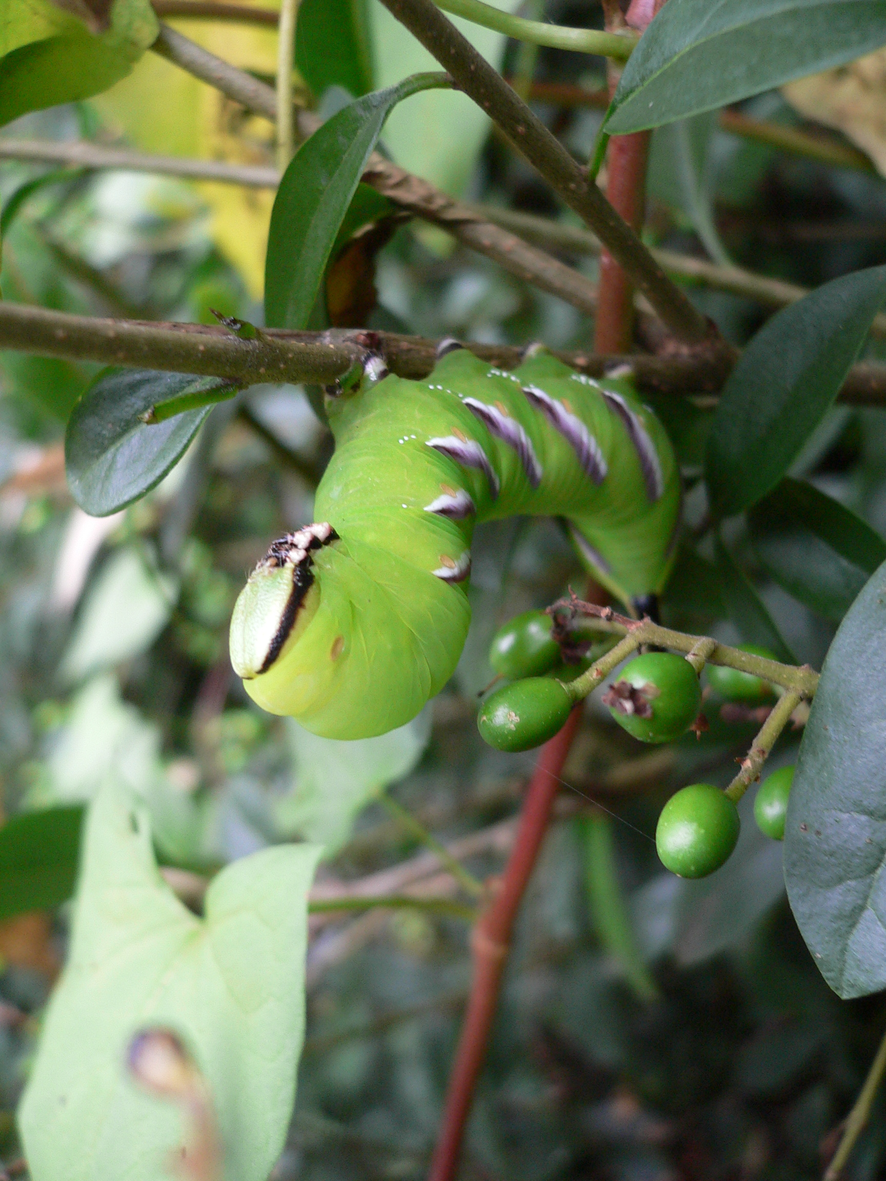 Berlin-Kreuzberg, Germany – an Liguster / caterpillar of Privet Hawk-moth (Sphinx ligustri) (image was rotated)